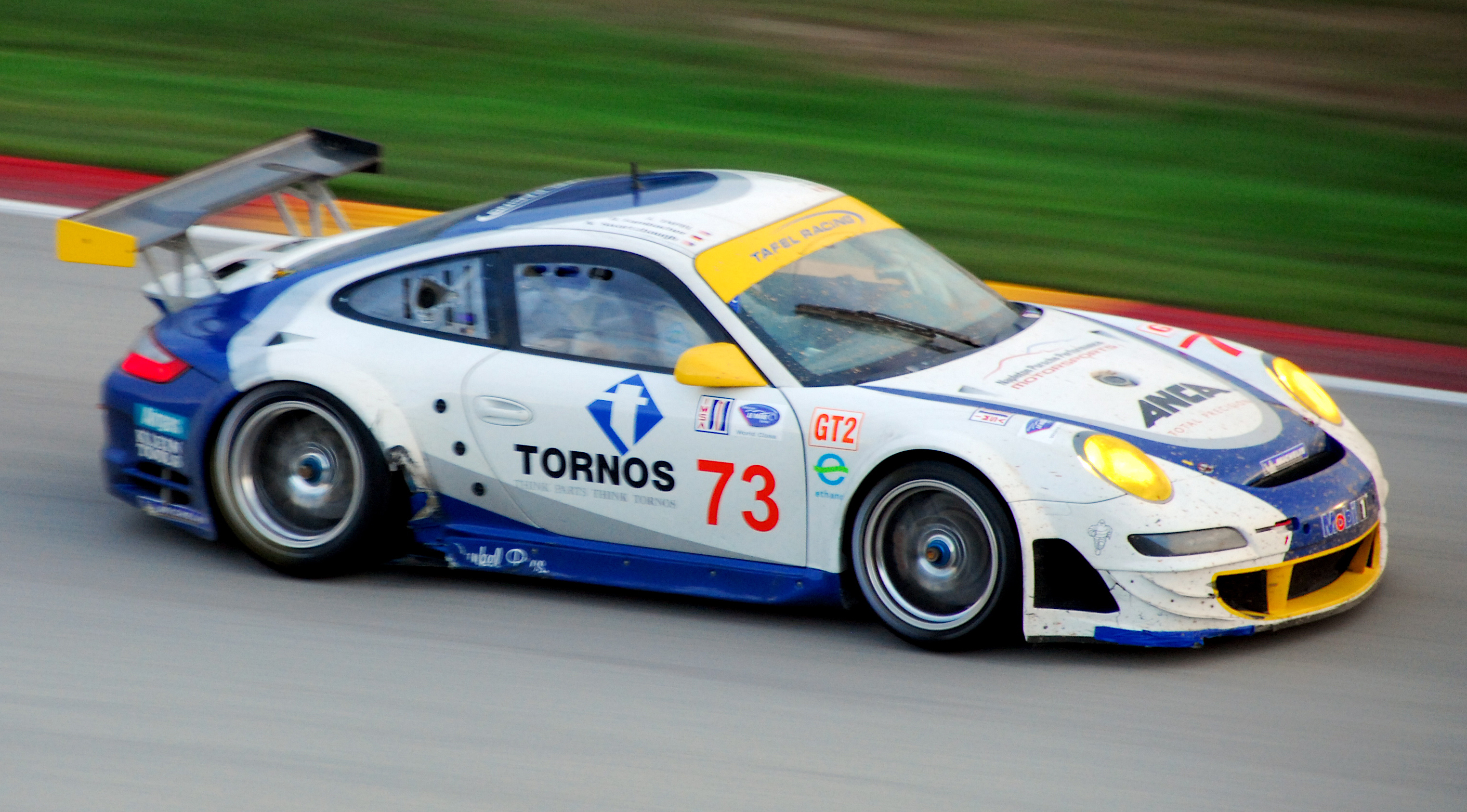 Tafel Racing's Porsche 997 GT3-RSR at the 2007 Generac 500